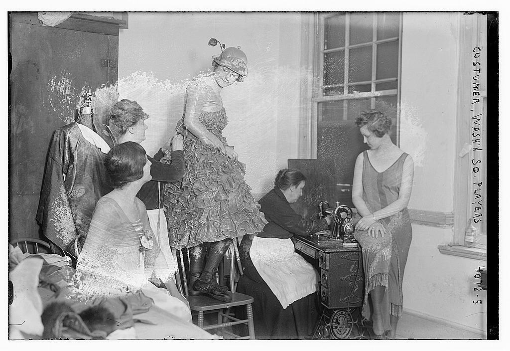 Costumer for the Washington Square Players in 1916